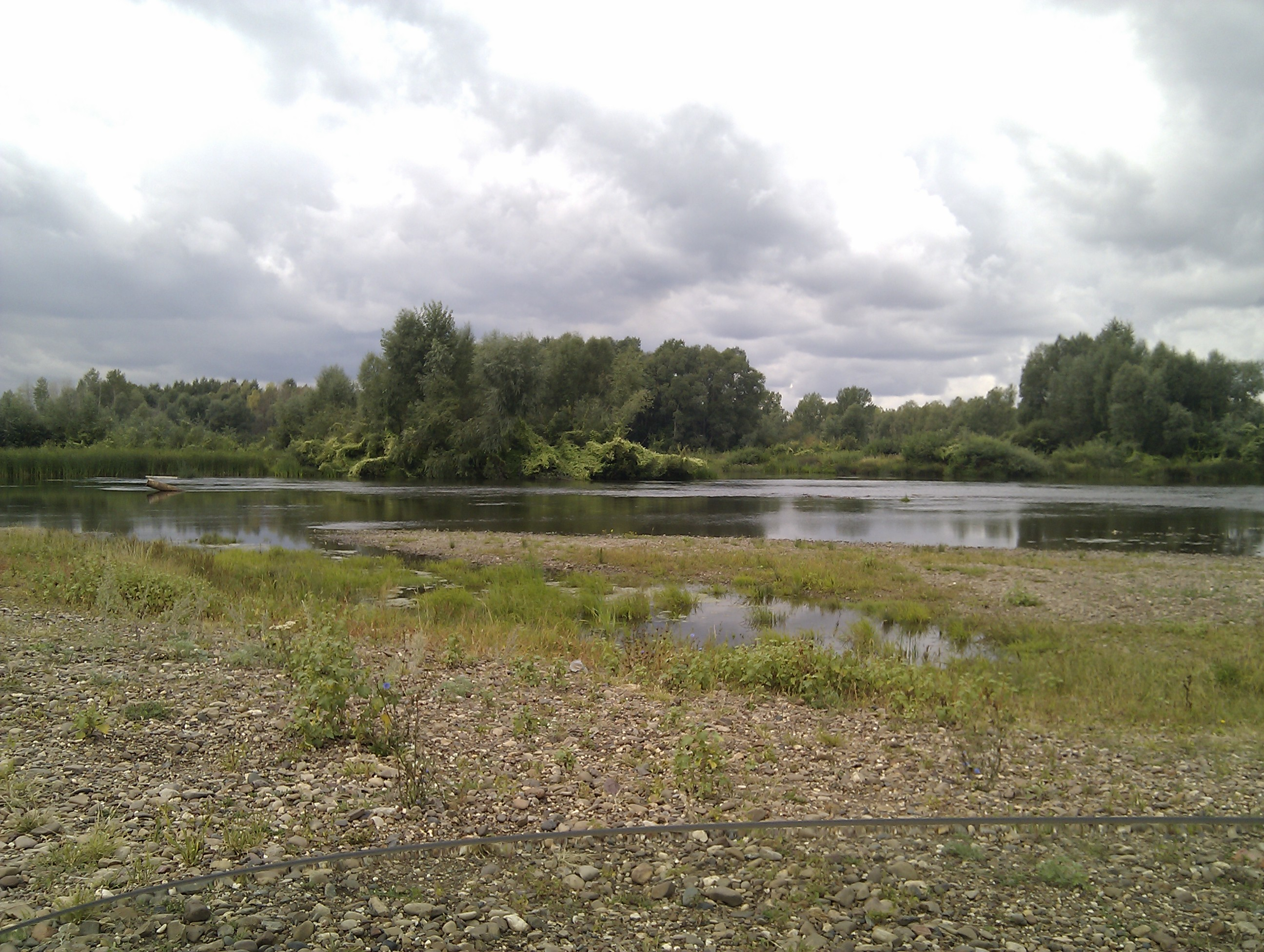 Untitled